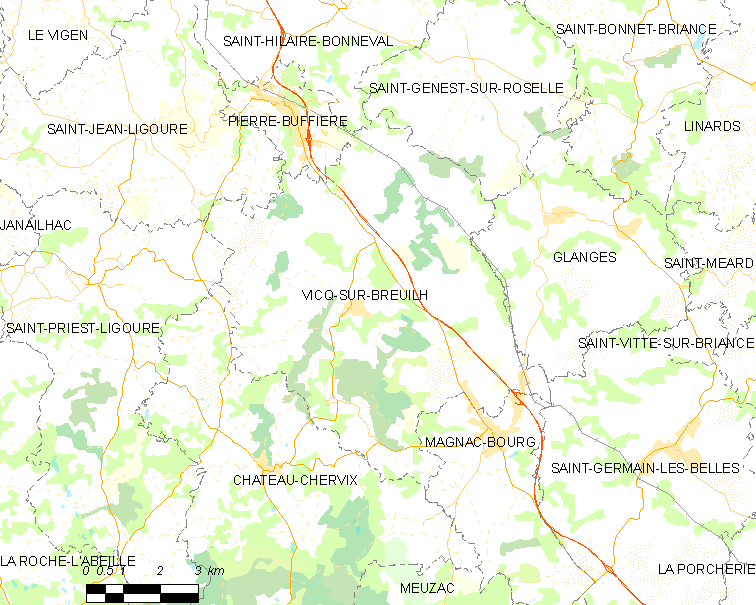 Map of French municipality Vicq-sur-Breuilh